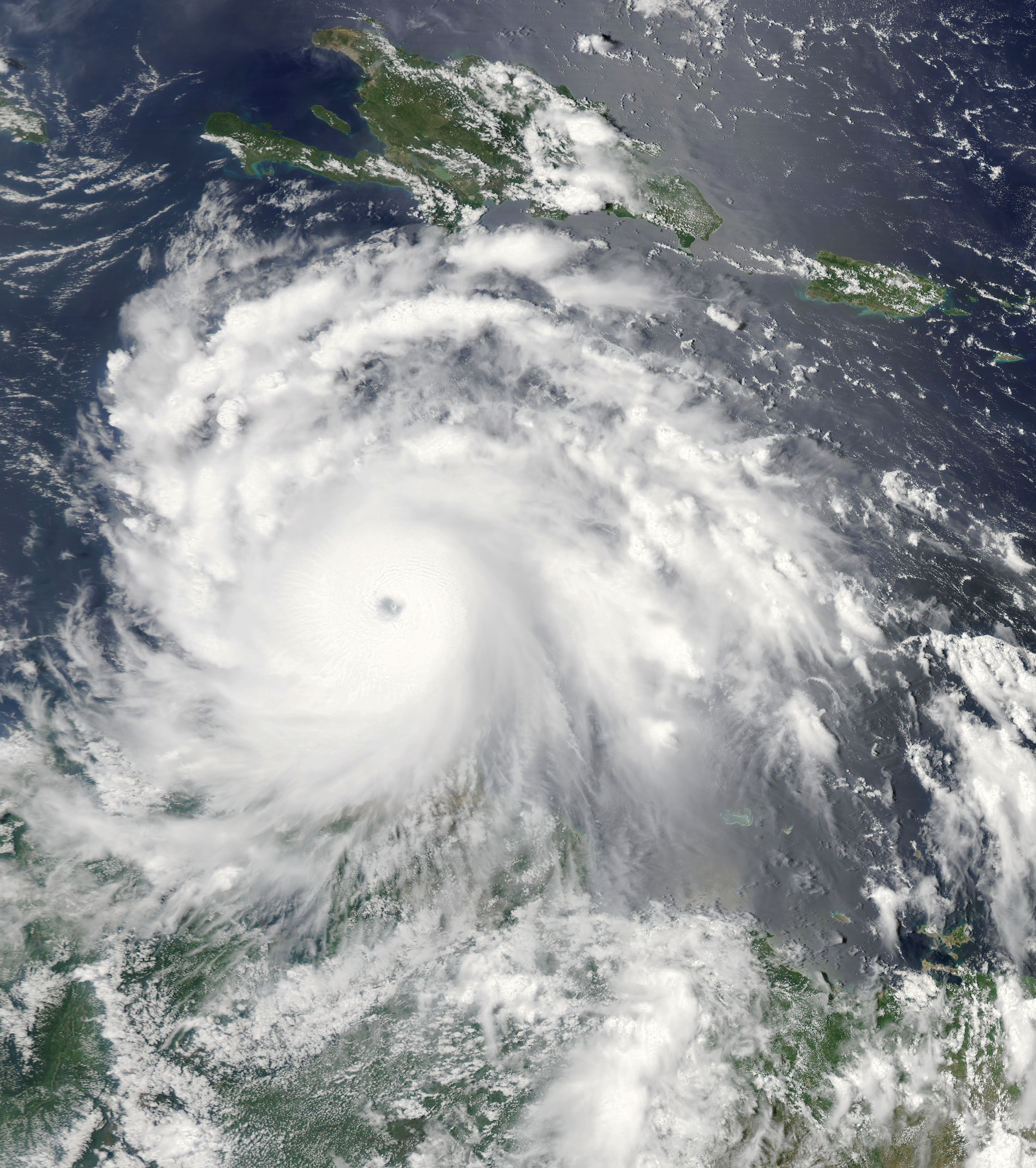 Hurricane Felix in the Central Caribbean Sea at 17:48 UTC on September 2, 2007. At the time, Felix was a rapidly intensifying hurricane, and would shortly become a Category 4 hurricane after classified a Category 2 hurricane just 6 hours prior.